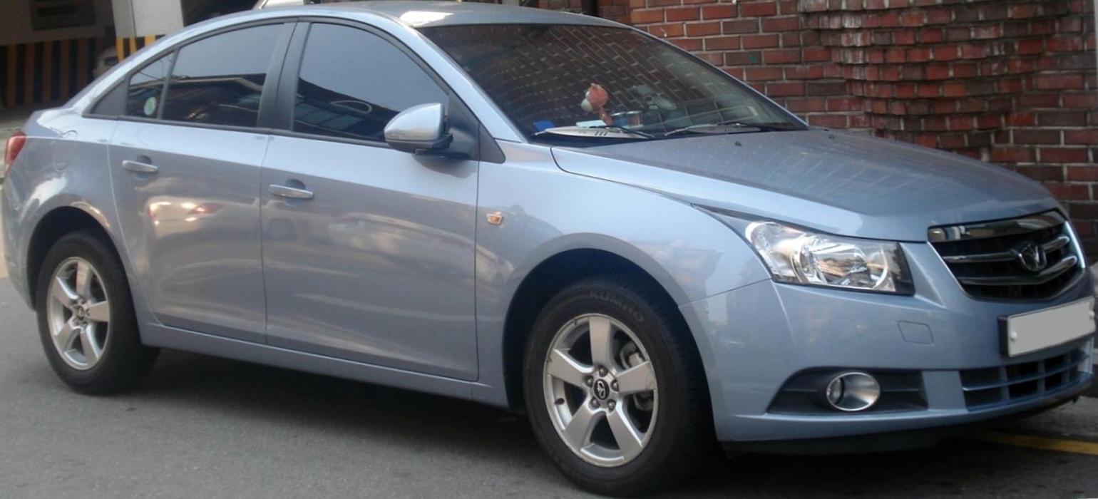 Daewoo Lacetti Premiere